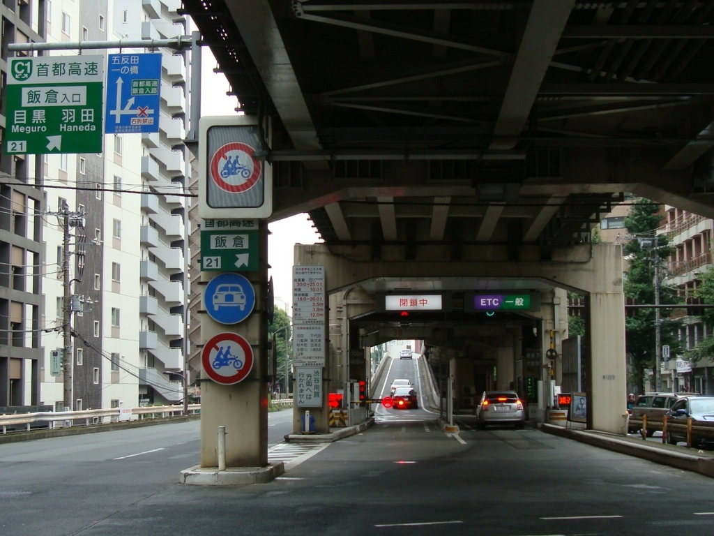 Iigura entrance ramp ot Shuto-kosoku expressway, Tokyo